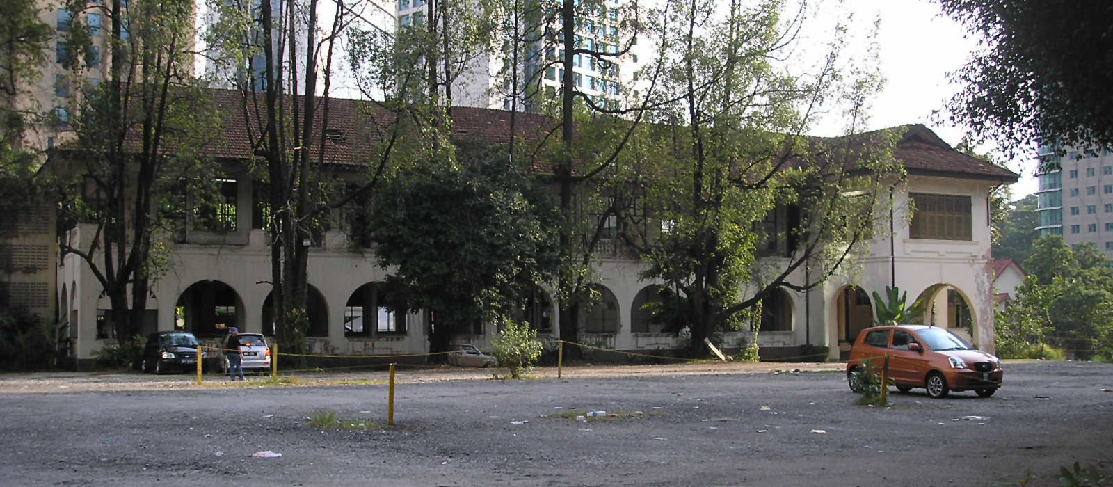 The dilapidated main school building of the St. Mary's Girls School at Jalan Tengah (directly translated as "Middle Road"), as seen towards the south, in the Golden Triangle, Kuala Lumpur, Malaysia.